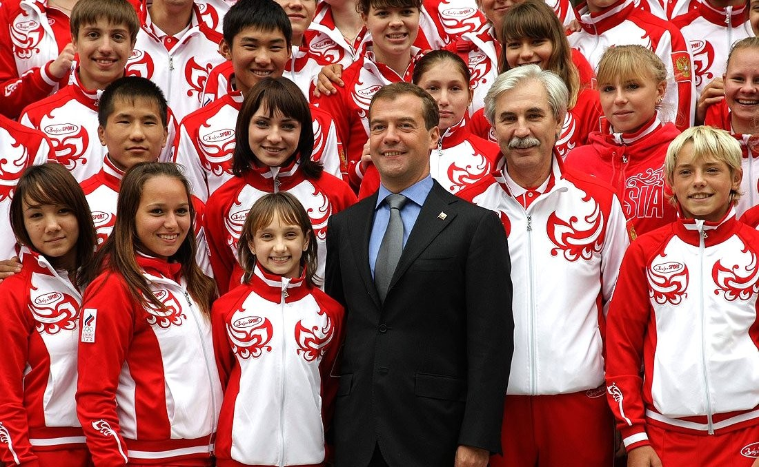 Gorki, Moscow Region. Dmitry Medvedev met with medal winners from the Russian national youth team that participated in the first Youth Olympics.